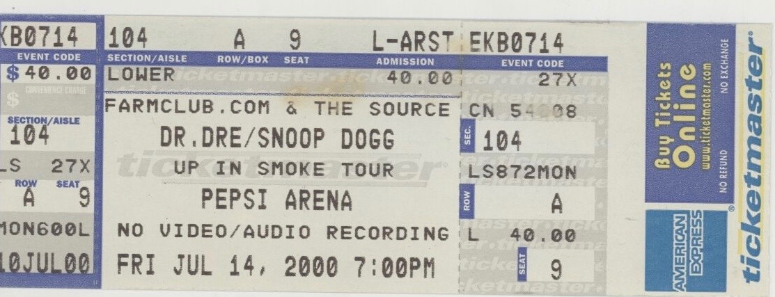 Ticket for Dr. Dre and Snoop Dogg's Up in Smoke Tour, held at Pepsi Arena in Albany, New York, July 14, 2000.